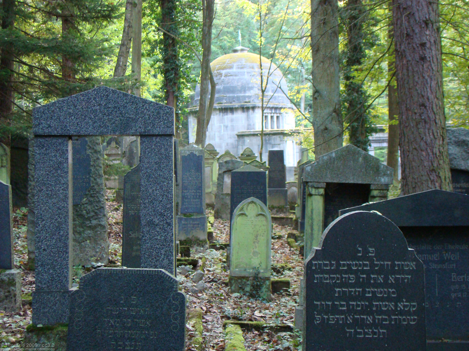 Jewish cemetery in Waibstadt, Germany